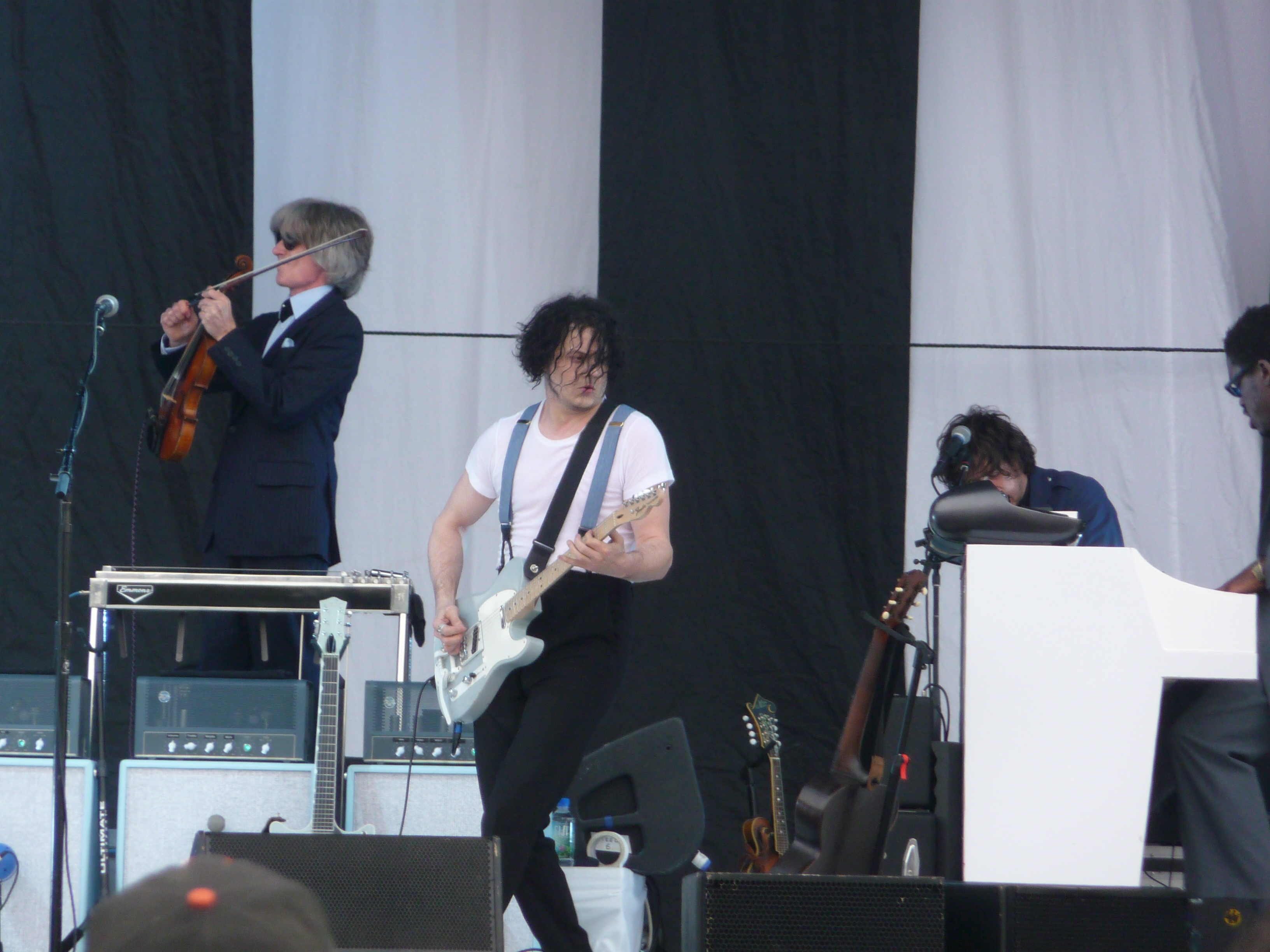 Jack White performing at Golden Gate Park for the Outside Lands Music and Arts Festival on August 12, 2012 in San Francisco, California.